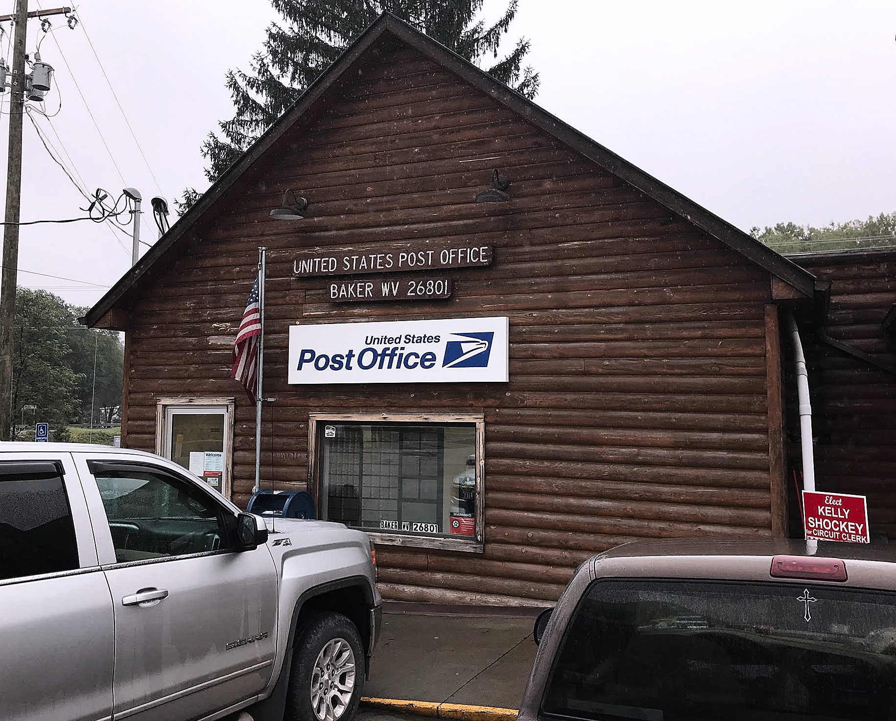 Baker WV Post Office